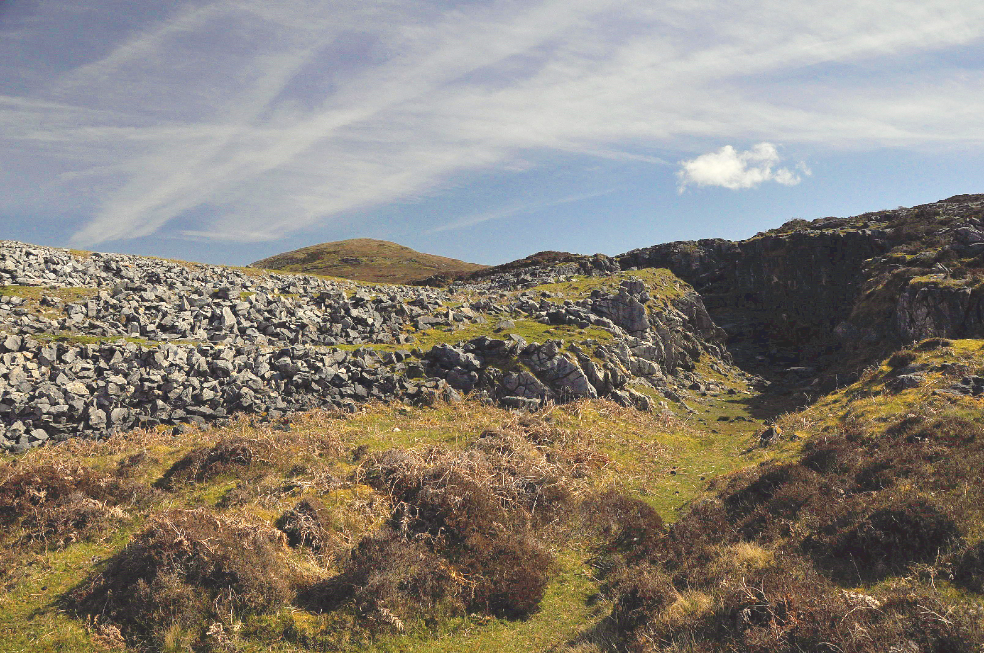 a marble quarry on Skye, Swordale